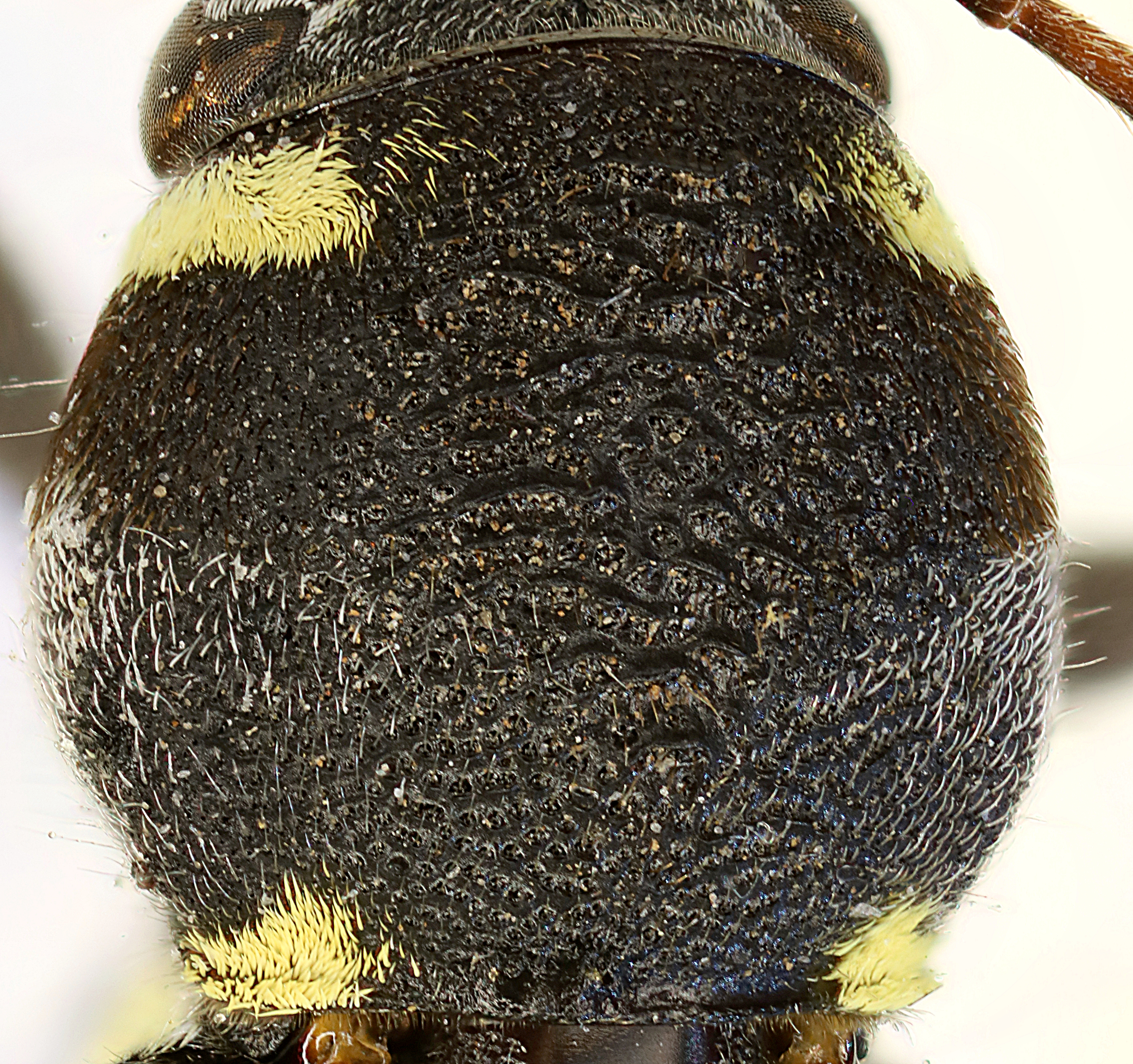 pronotum of Xylotrechus antilope